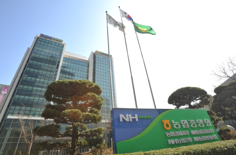 NACF headquarter photo